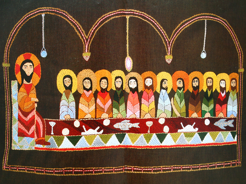 Embroidery work, Last supper placed in the Department of decorative-applied art at the Children's art museum